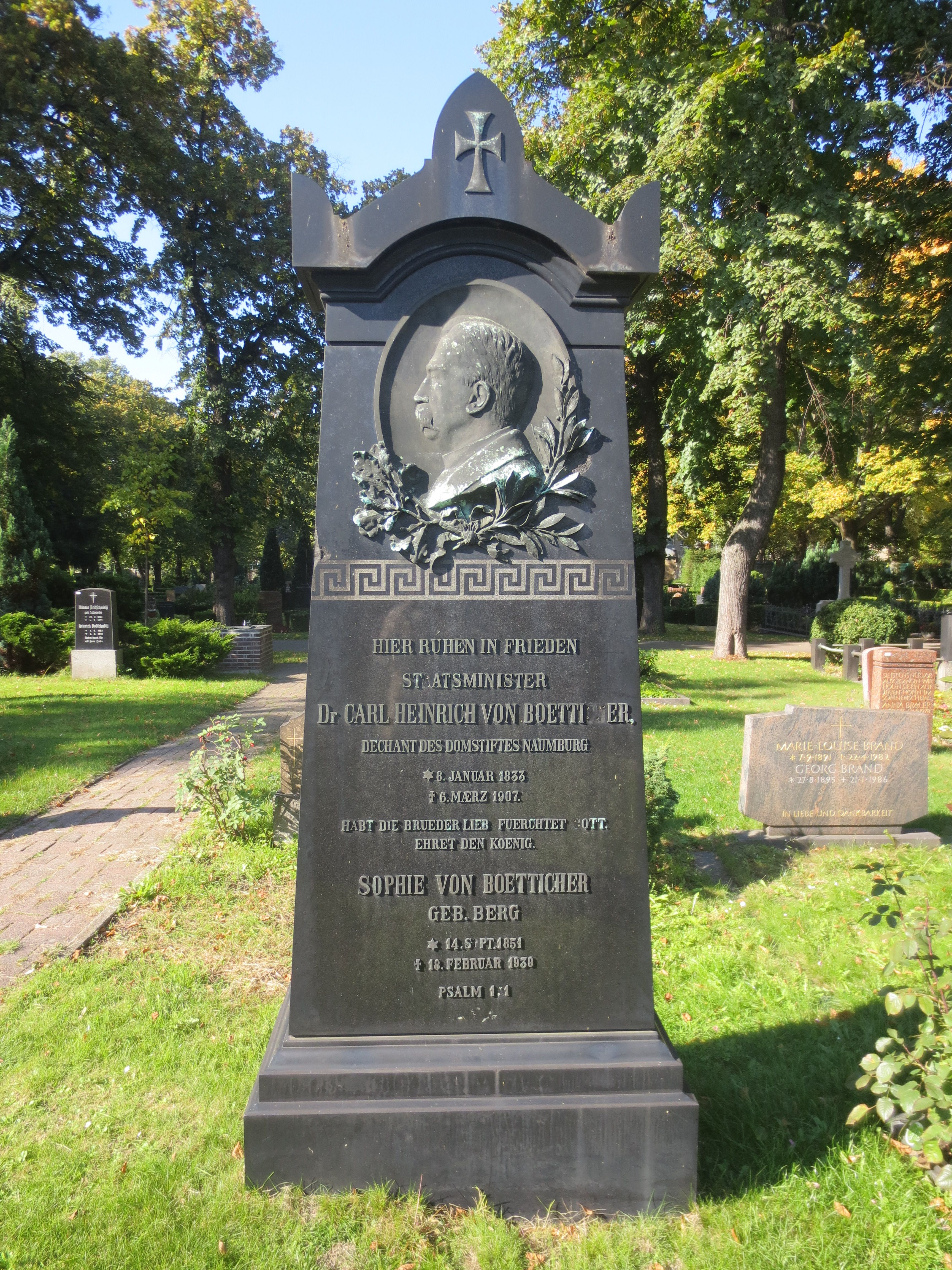 Grave of Karl Heinrich von Boetticher (1833-1907) on the Old Twelve Apostles Cemetery in Berlin-Schöneberg.